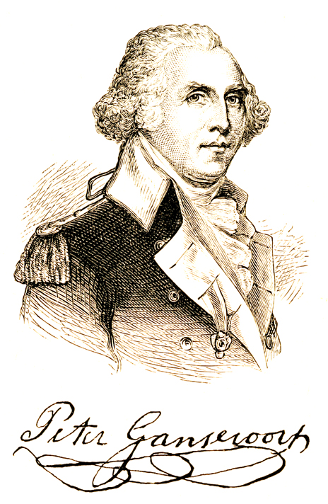 Peter Gansevoort